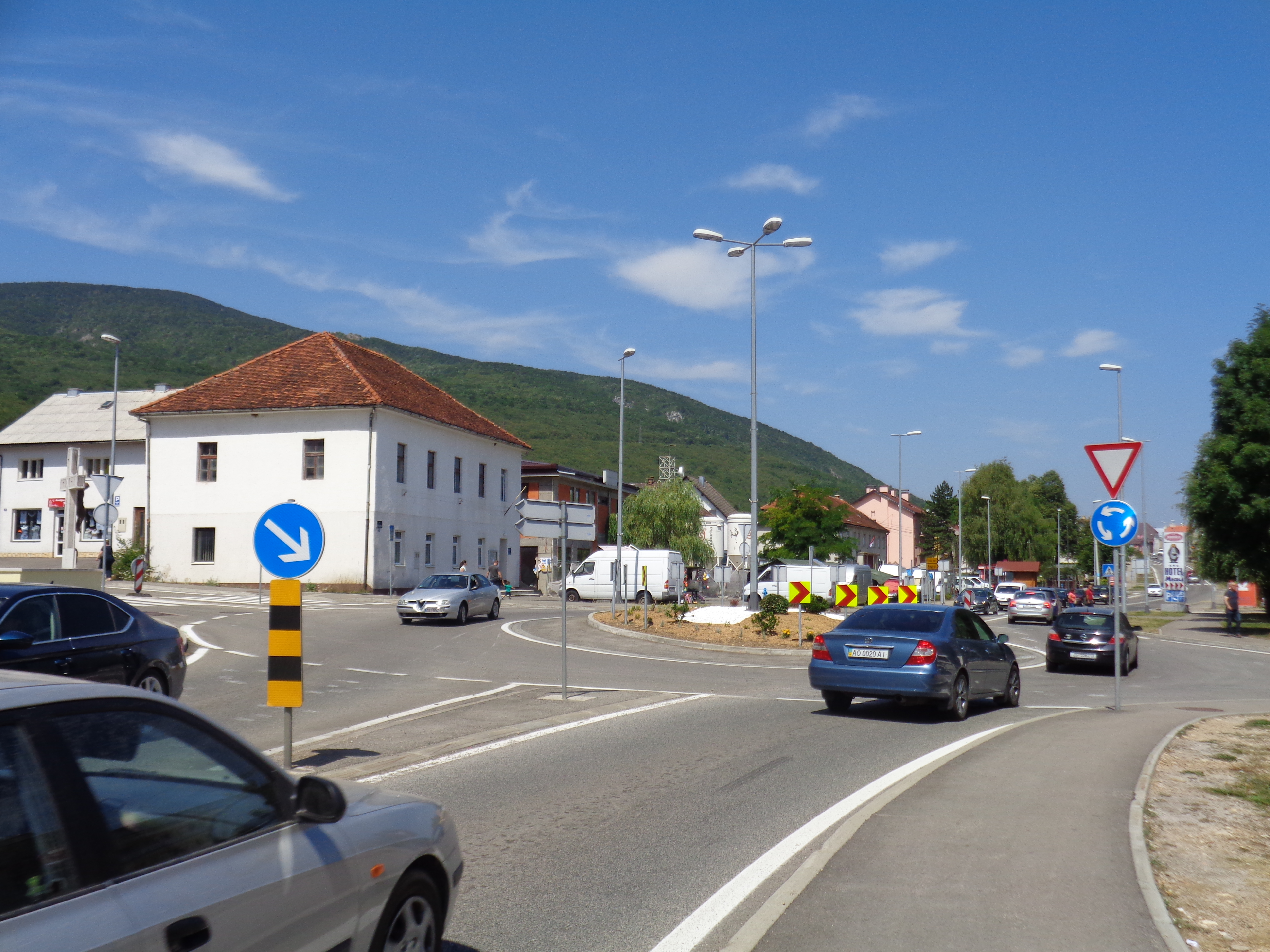 Korenica, seat of the Municipality of Plitvička Jezera, Lika-Senj County, Croatia - roundabout in village centre